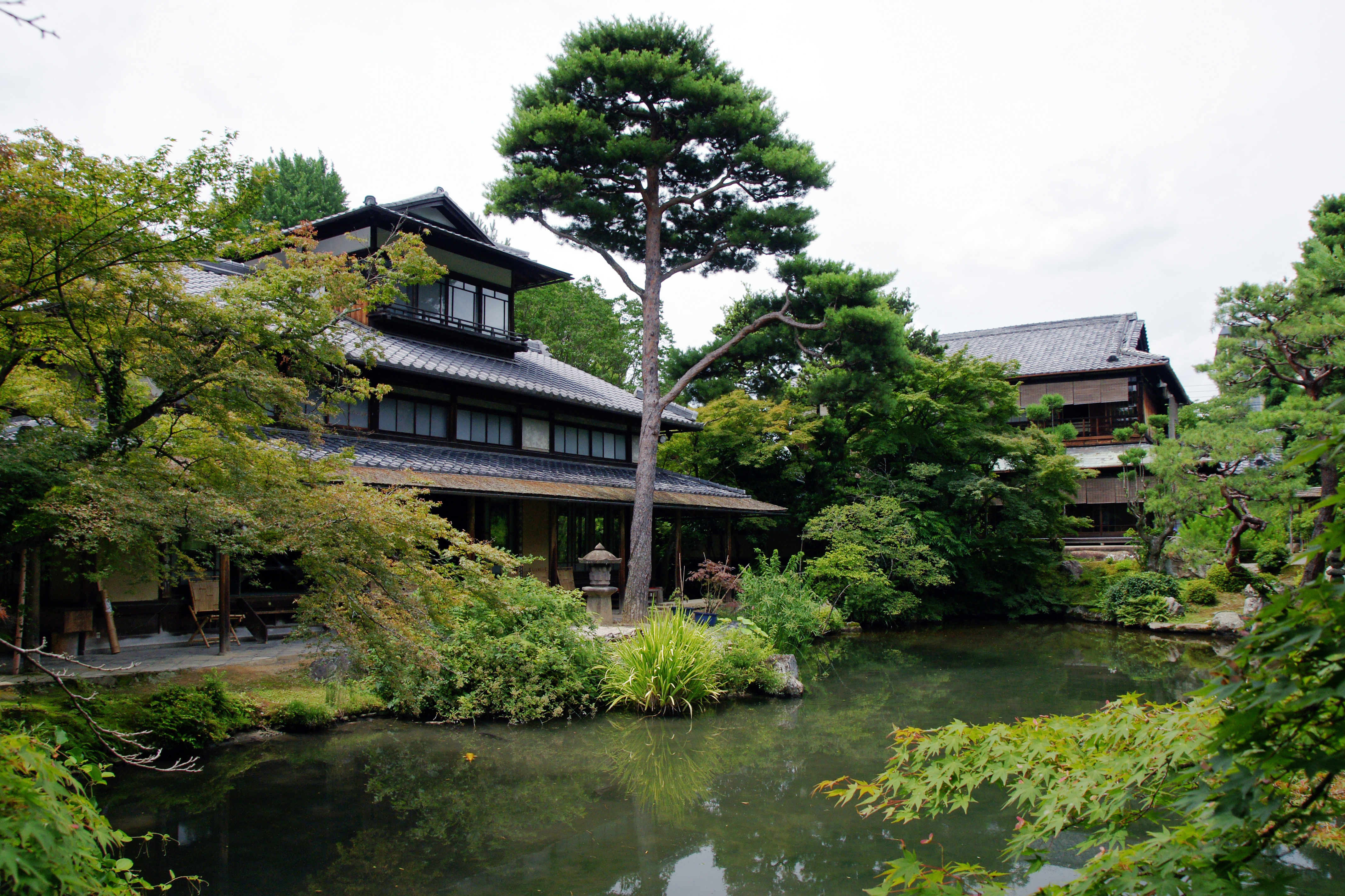 Hakusasonnsou in Kyoto, Kyoto prefecture, Japan